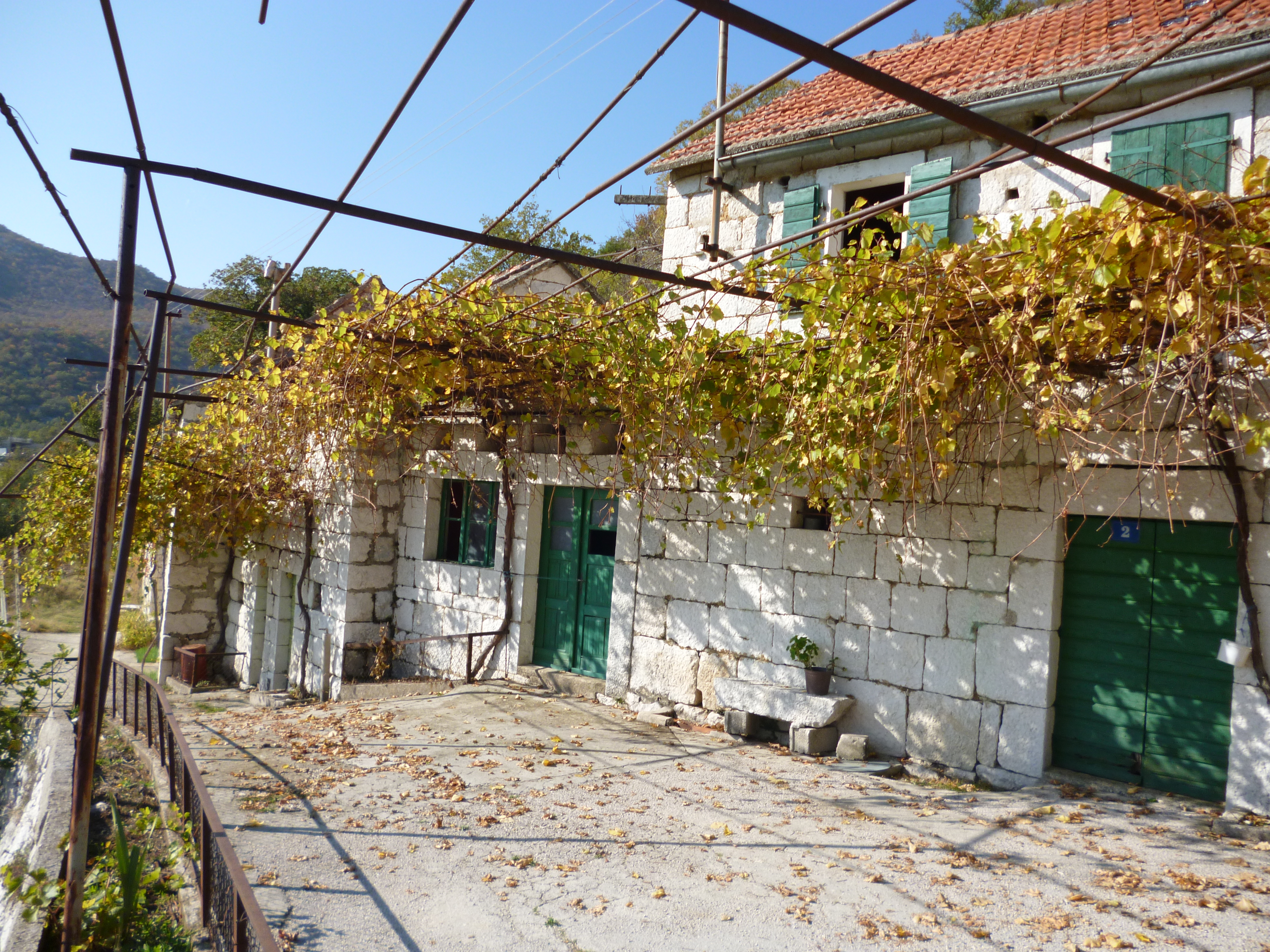 Location filming Donkey